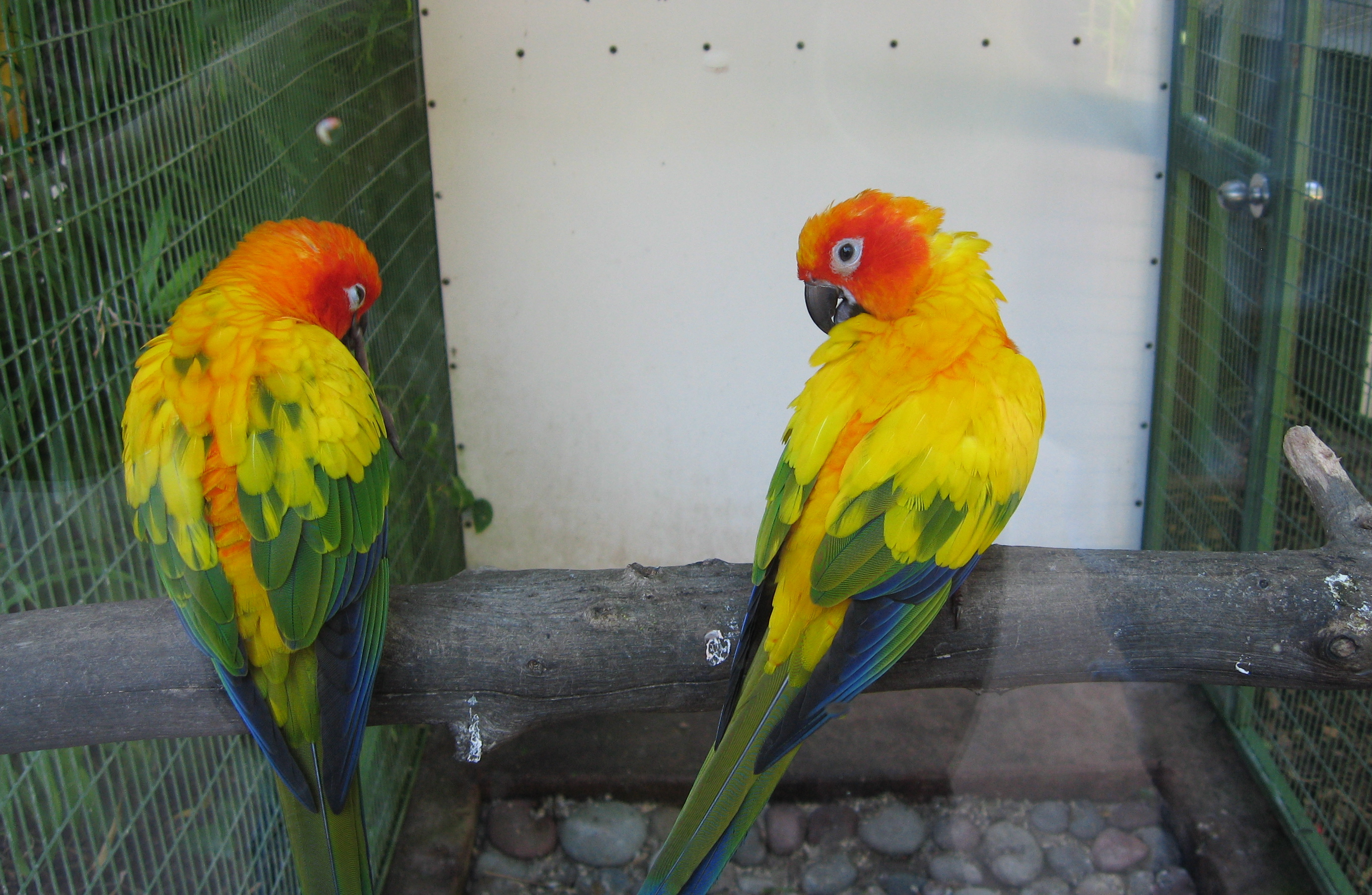 Sun Conure (also known as the Sun Parakeet) at Jungle Island, Miami, USA.